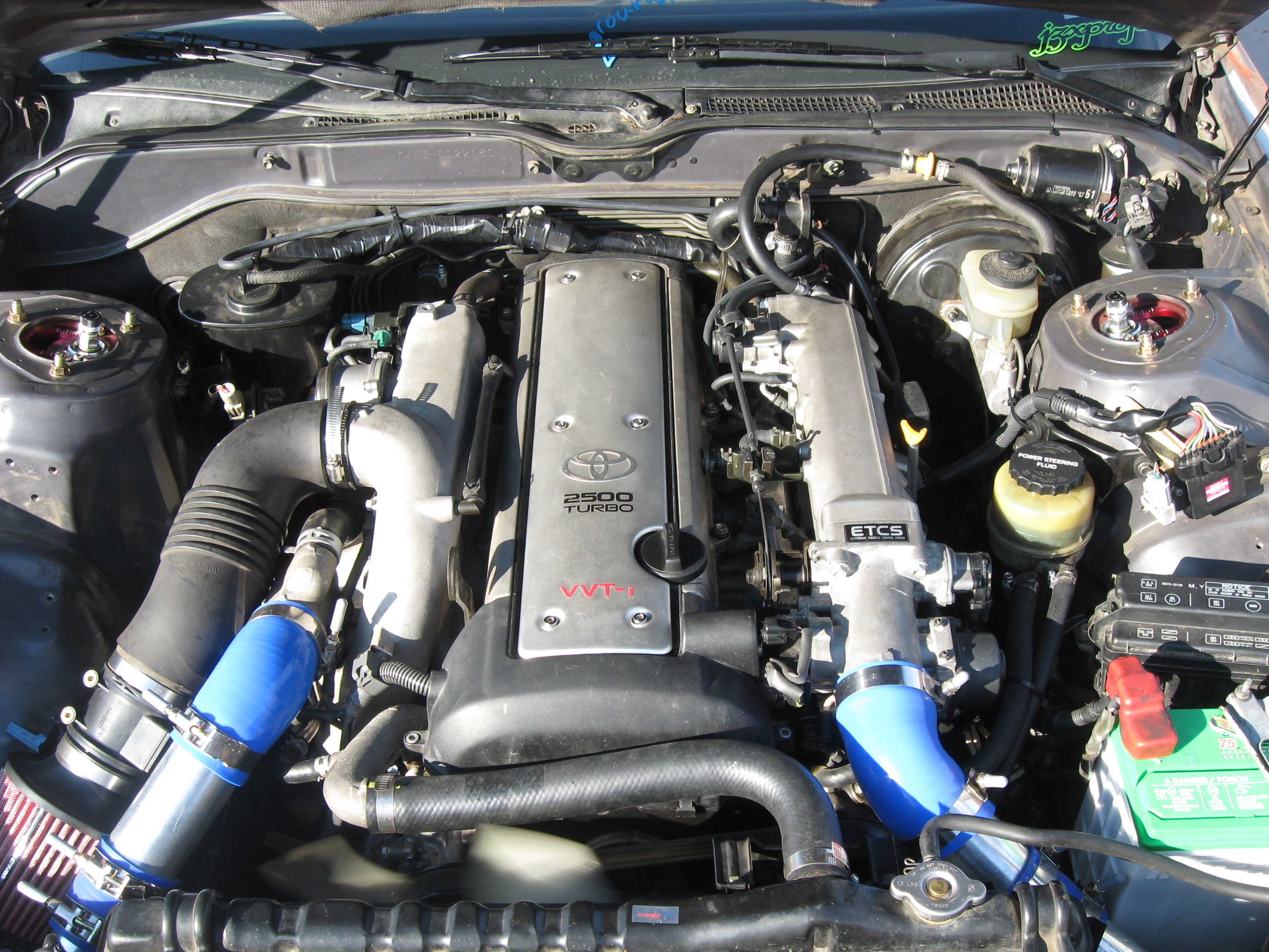 1JZ-GTE VVTi from JZX100 in 1989 MX83 Cressida